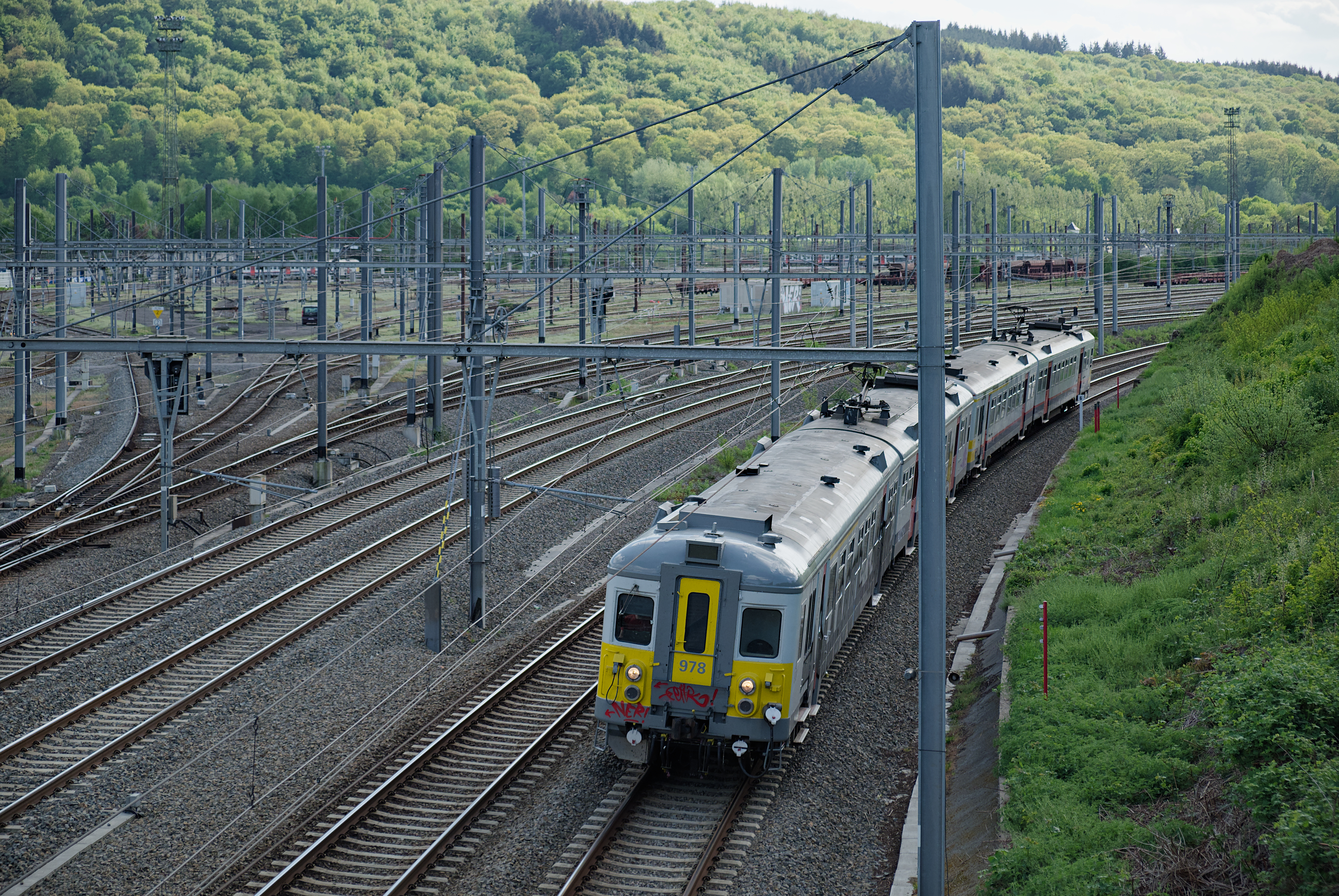 SNCB 978 and the Ronet classification yard